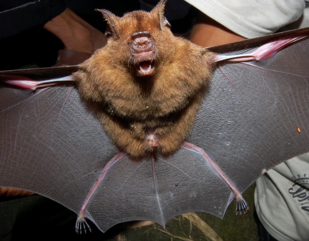 Intermediate Roundleaf Bat (Hipposideros larvatus), forearm 60mm. From Lampung, Southern Sumatra.